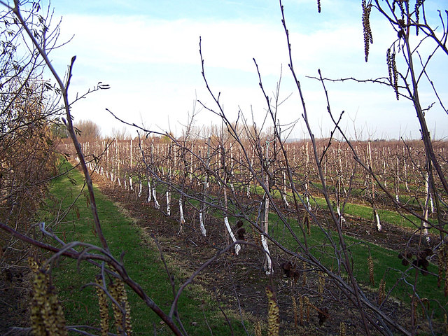 Young orchard These are recently planted apple trees.